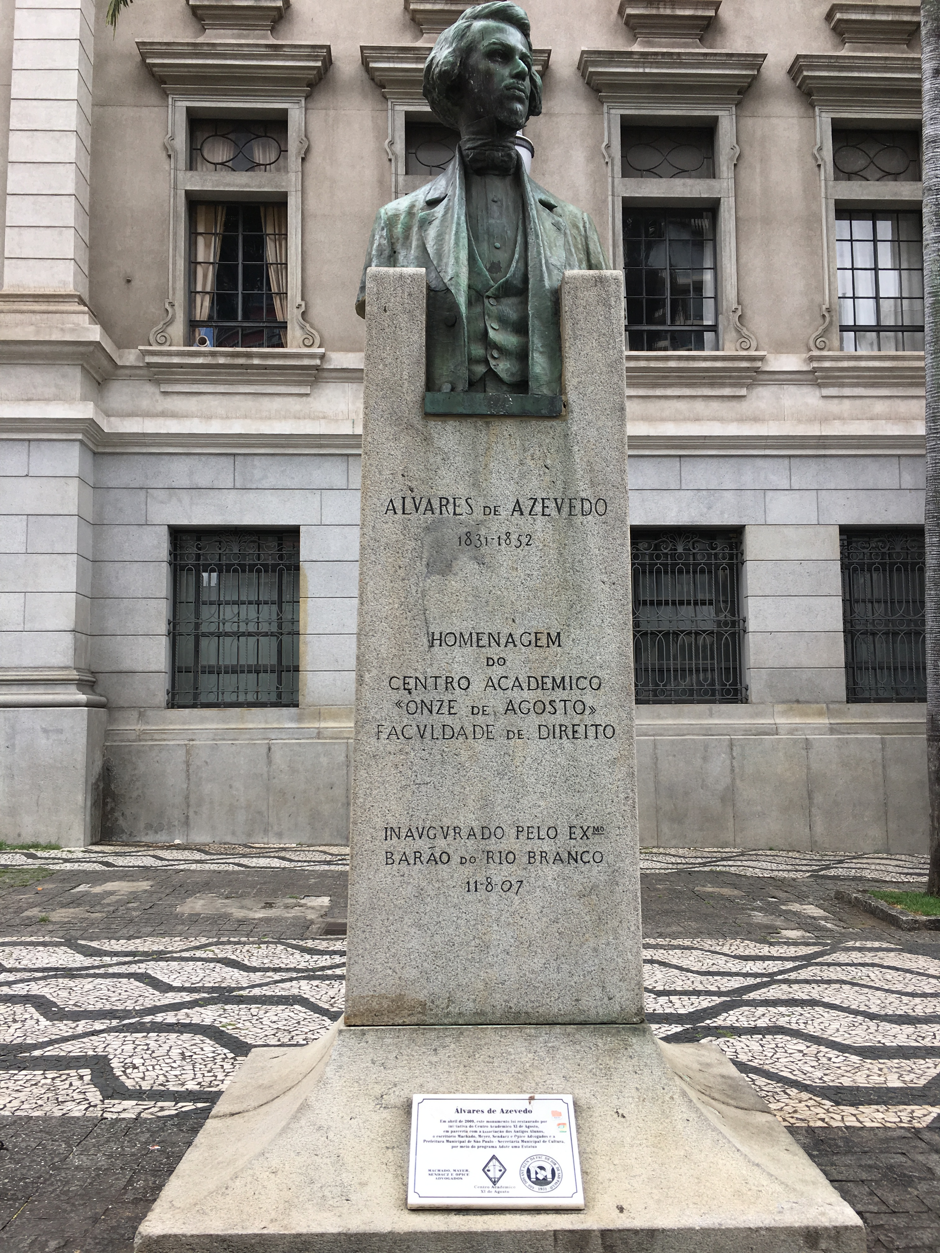 Statue of Manuel Antônio Álvares de Azevedo, writer of the second romantic generation, in Brazil of XIX century. Located in Largo São Francisco, São Paulo - SP.